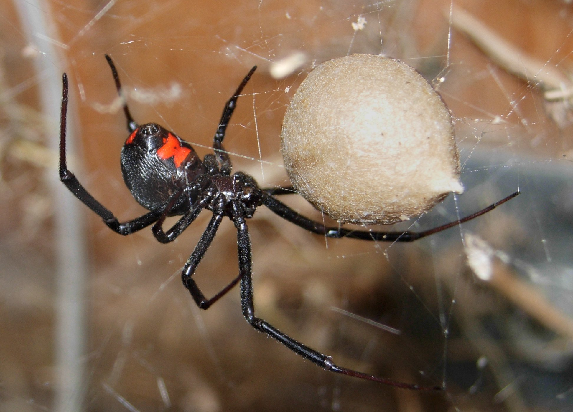 Female black widow spider guarding an egg case - Species Latrodectus mactans